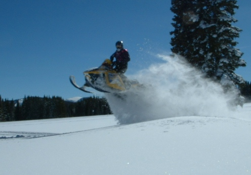 Rotax powered Bombardier SKI-DOO XRS 800cc engine, photographed in Wyoming.